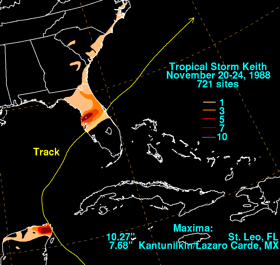 Storm total rainfall map of Tropical Storm Keith during November 1988.